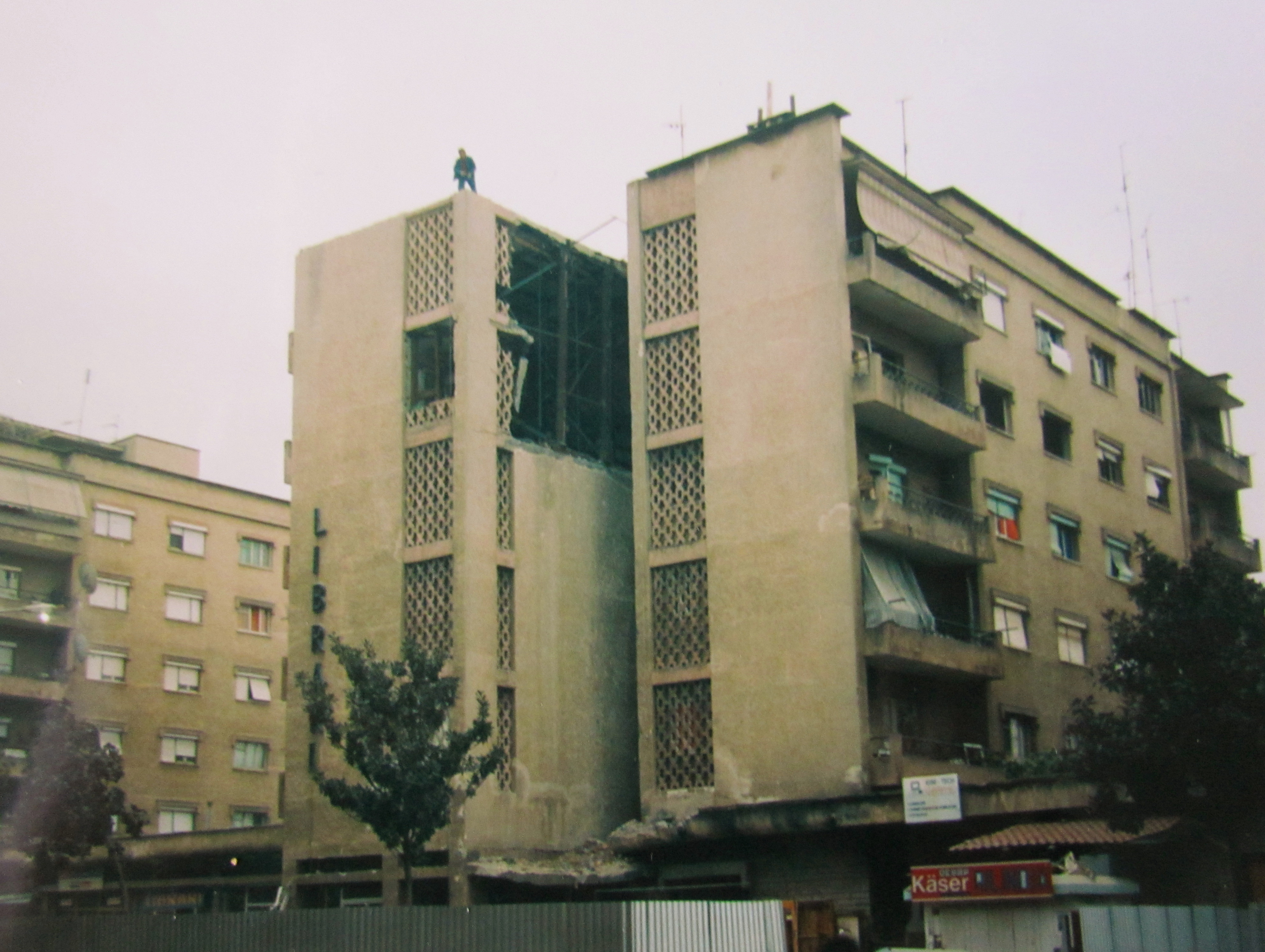 Apartment block in central Tirana after a bomb was planted in the home of the Chairman of the Albanian Court of Appeal, Prel Martini. The device went off on November 6, 1996, causing a broken leg for Martini's 5-year-old daughter, and only slightly injuring the judge himself. More on the story here.